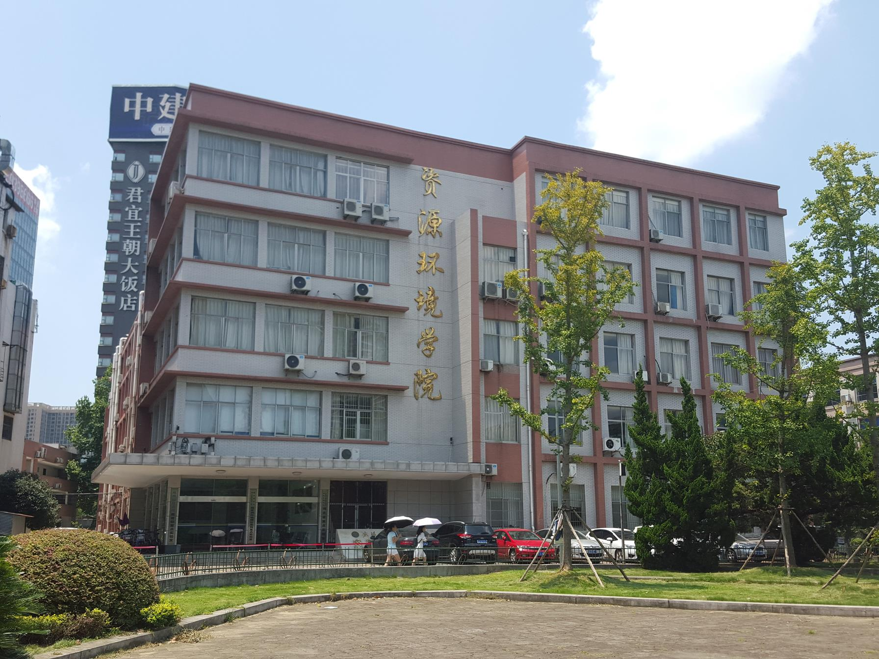 School of Resource and Environmental Science, Wuhan University